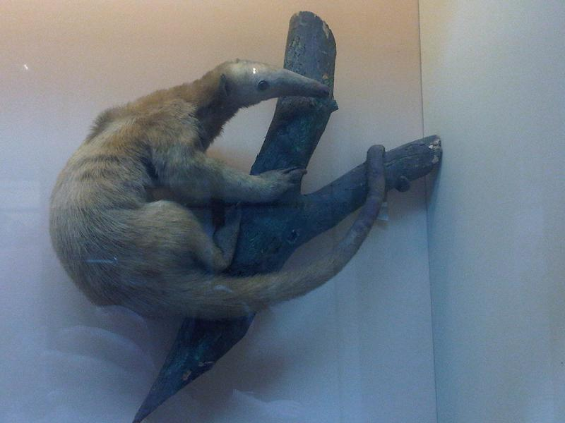 Taxidermied Southern Tamandua, Collared Anteater or Lesser Anteater (Tamandua tetradactyla) at the Natural History Museum in London, England.